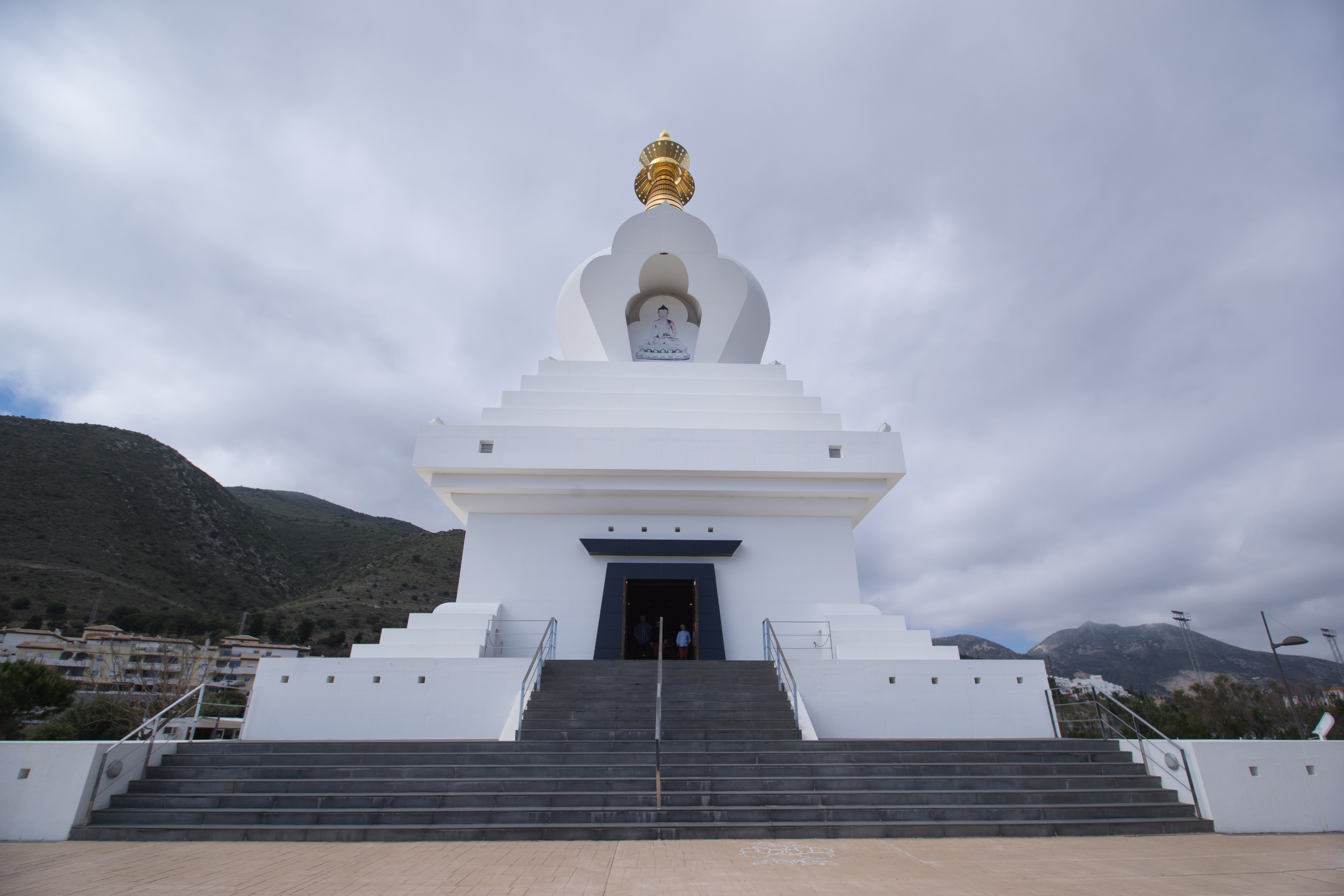 Enlightmen Stupa in Benalmadena